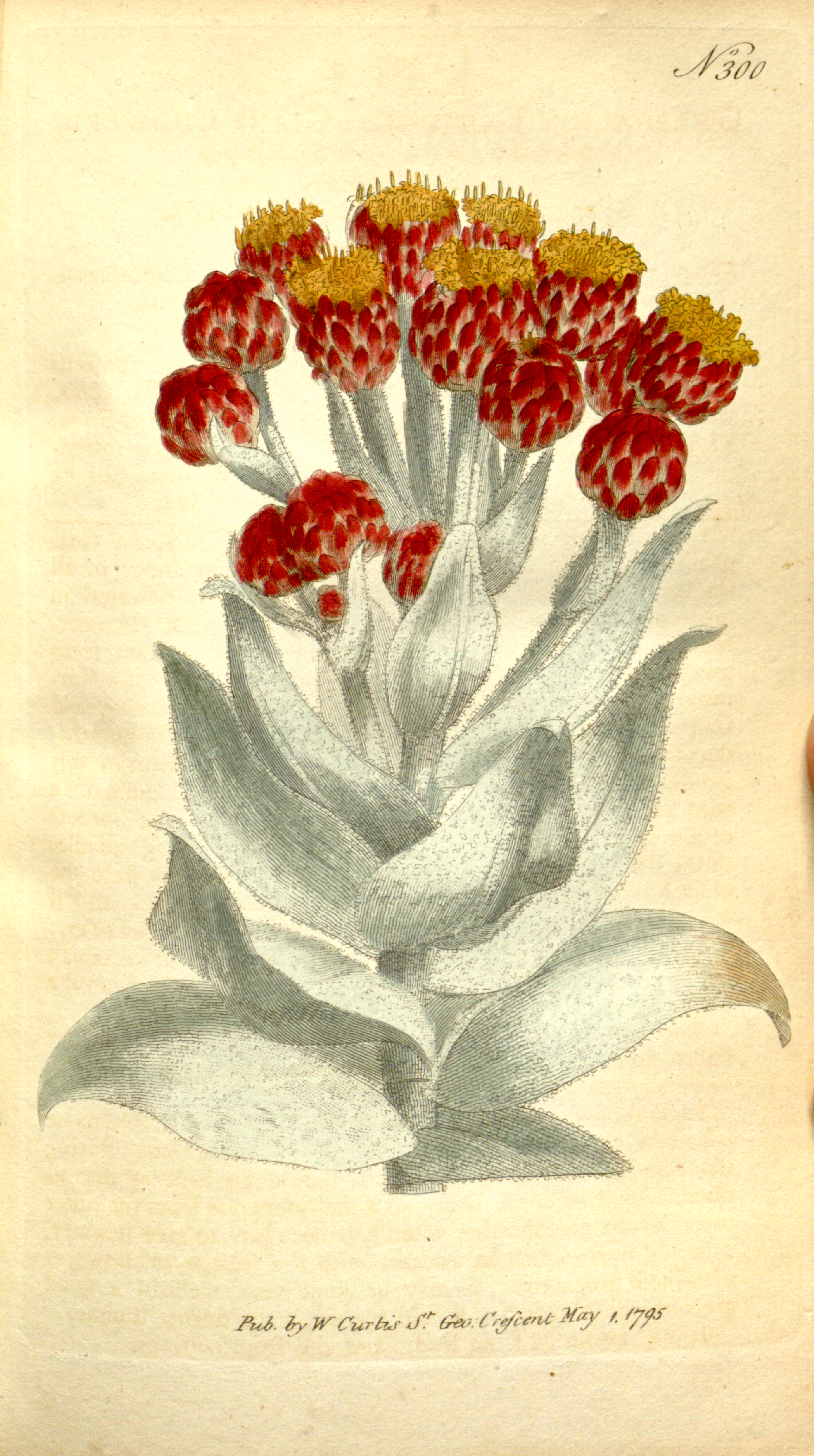 This is a plate from The Botanical Magazine, Volume 9.